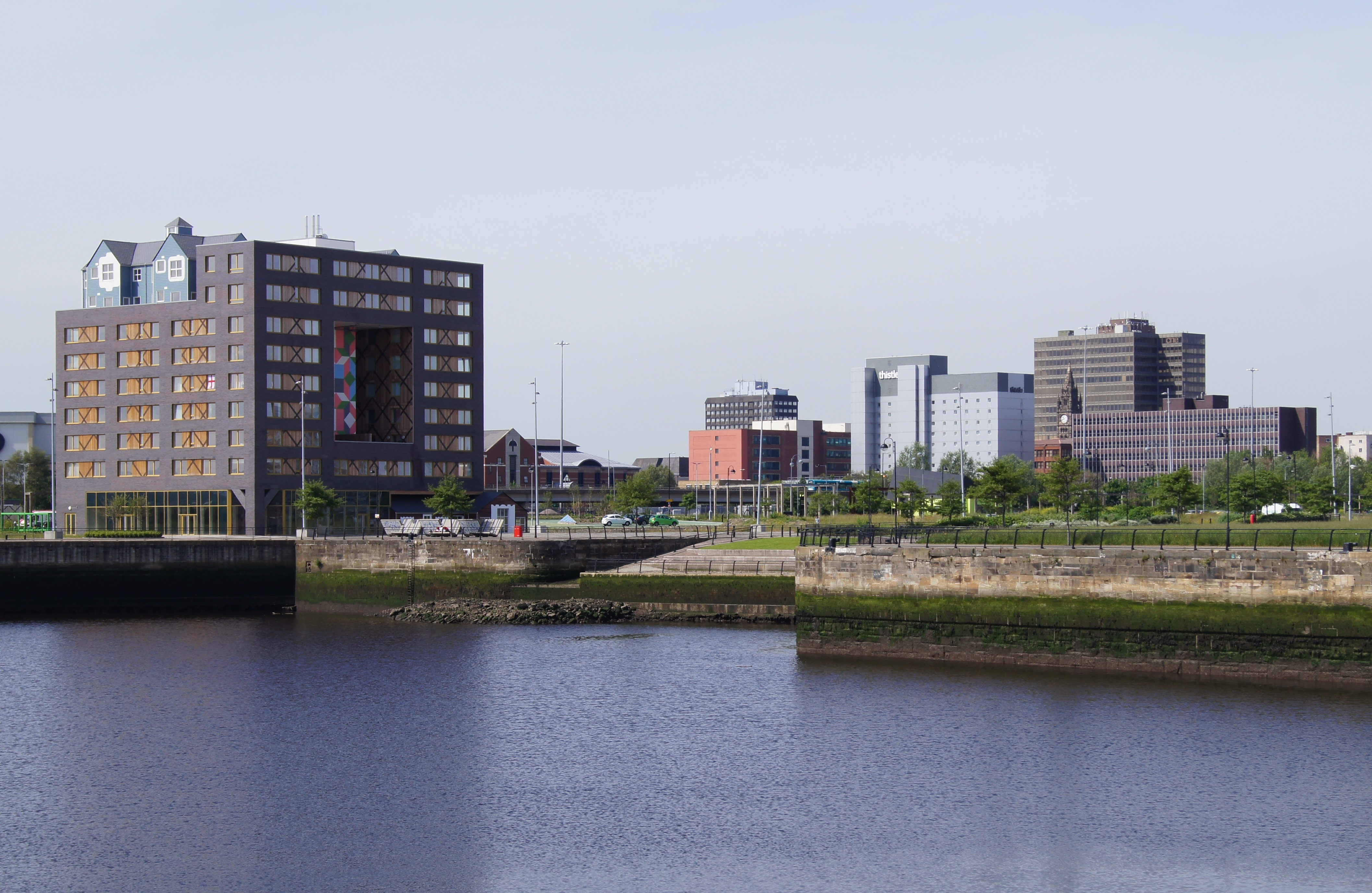 The CIAC Community in a Cube Building at Riverside One, Middlehaven, Middlesbrough.